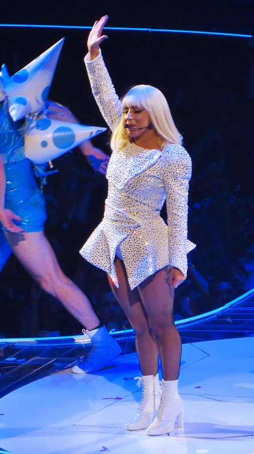 Lady Gaga, ARTPOP Ball Tour, Bell Center, Montréal, 2 July 2014 (36) Gaga performing on ArtRave: The Artpop Ball tour